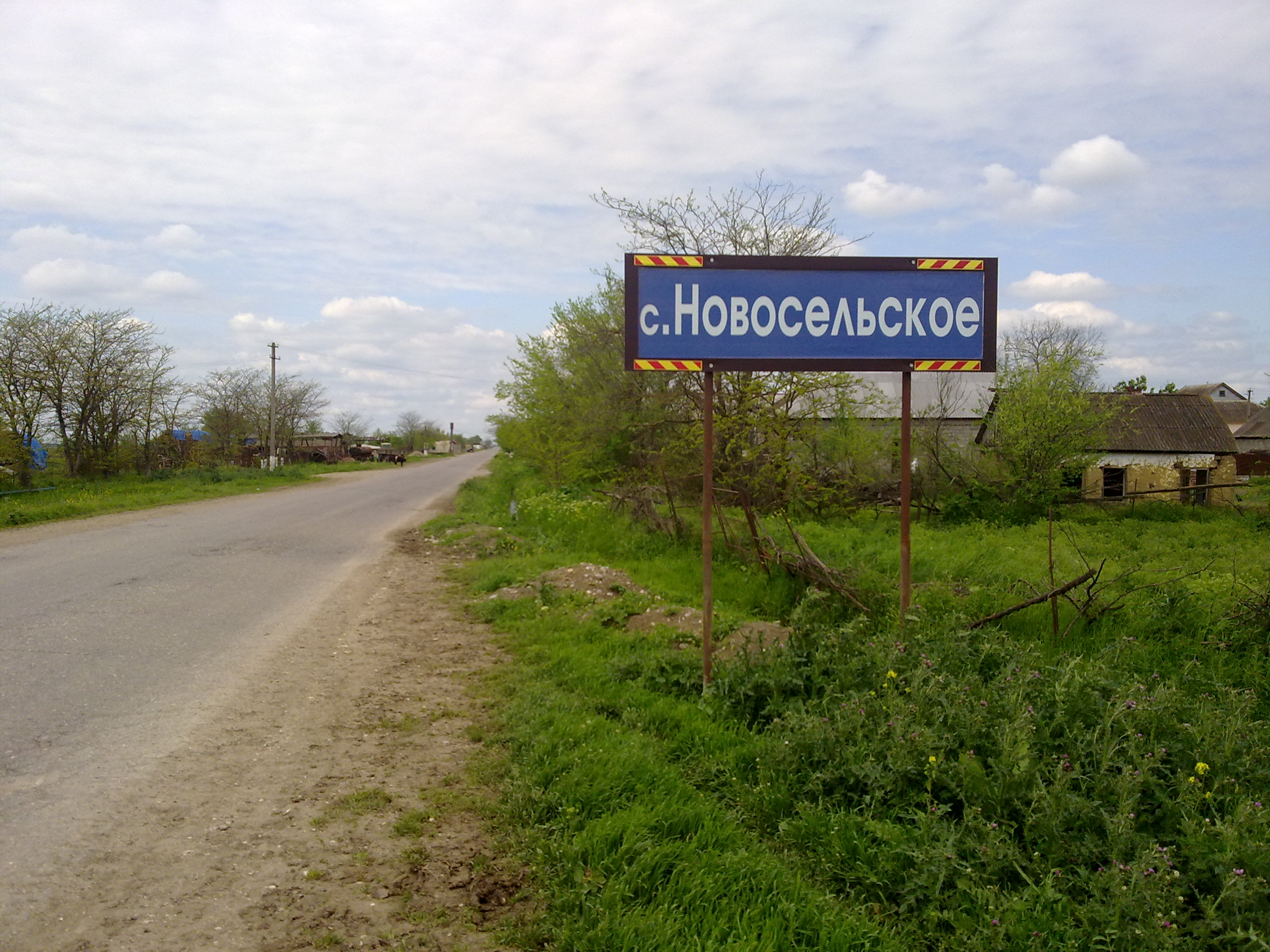 Entrance to the village Novoselskoe